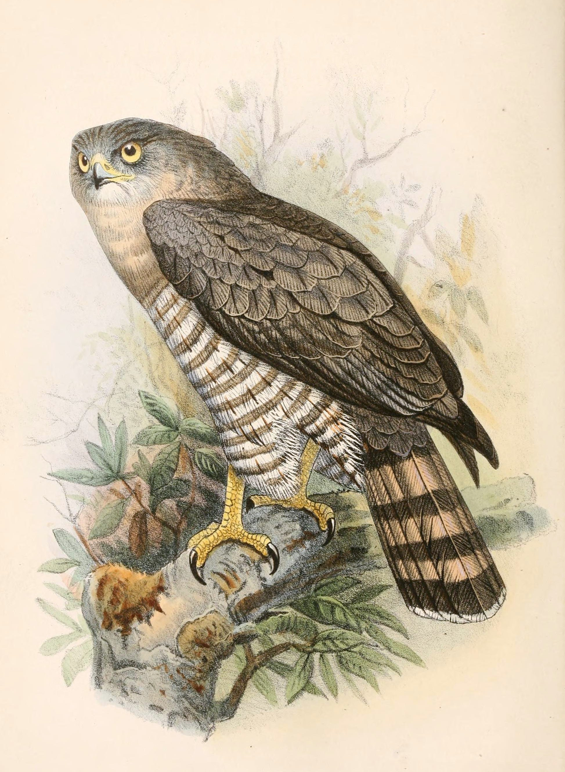 « Circaetus fasciolatus » = Circaetus fasciolatus (Southern Banded Snake Eagle)